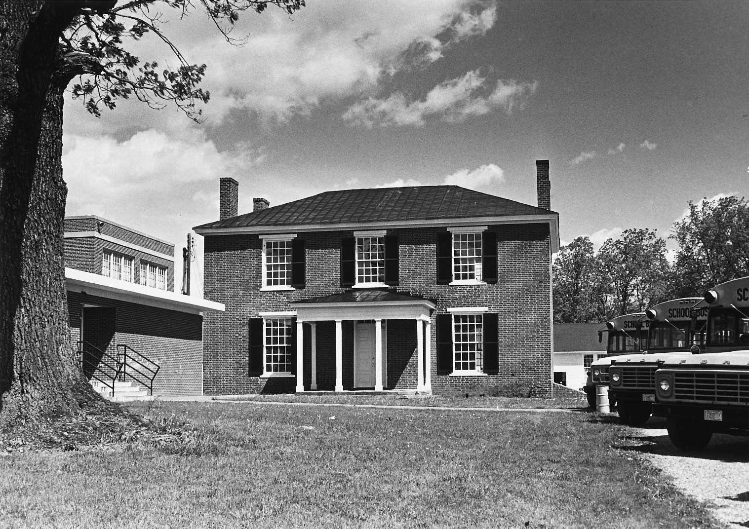 New London Academy, New London, Virgina